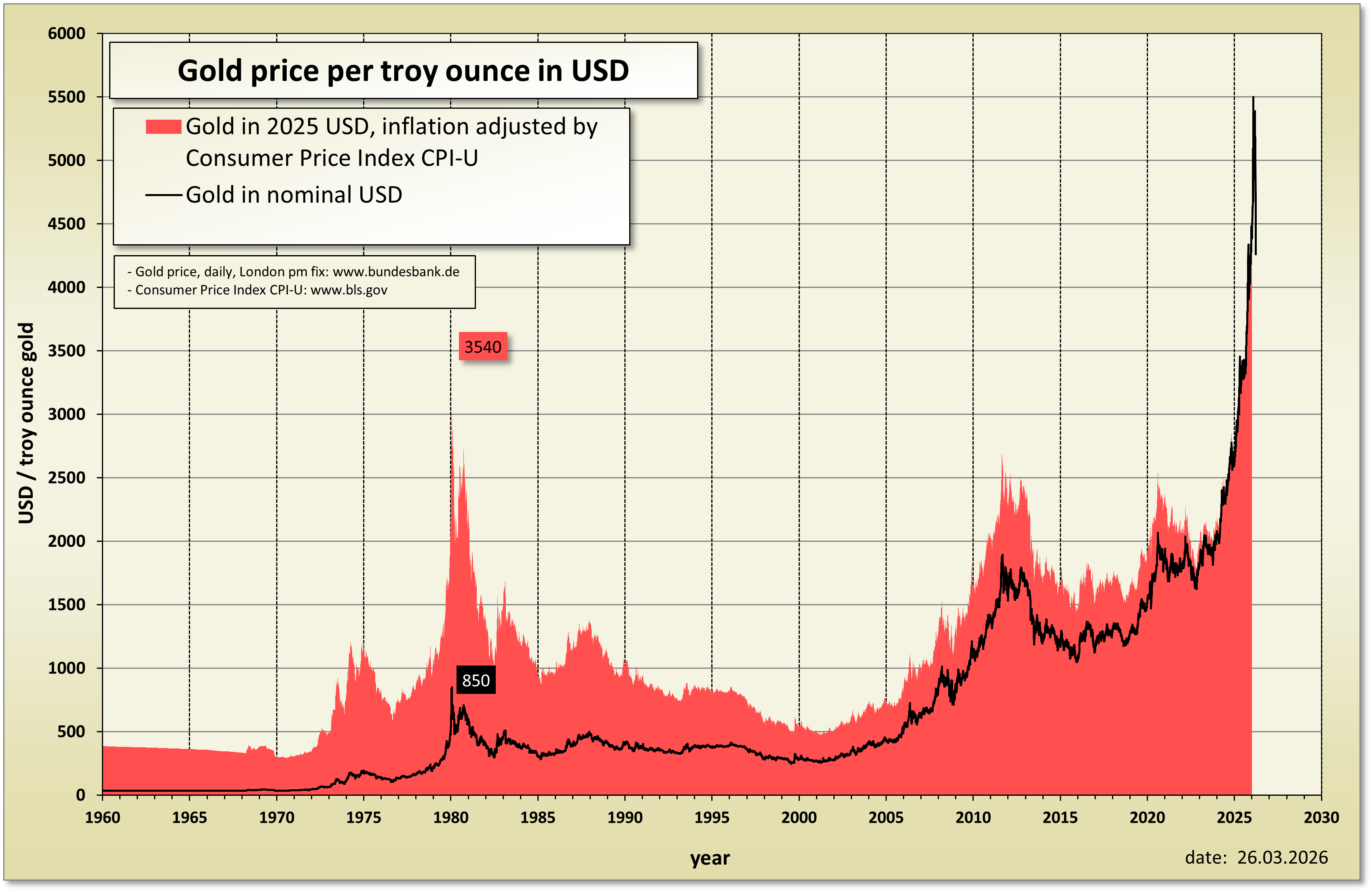 Historical gold price in USD and inflation adjusted gold price in USD. The chart shows Silver Thursday event as a peak in 1980 when Hunt brothers drove up the price of silver through speculations and after it they lost about a billion dollars.